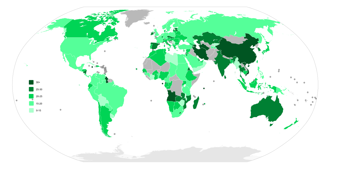 Investment as a percent of GDP, as listed on the CIA factbook (accessed November 2006). Based on the blank svg map; Image:BlankMap-World6.svg See also svg version: Image:Investment percent gdp.svg